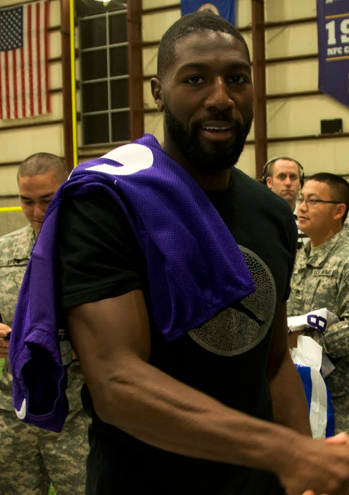 Minnesota Vikings WR Greg Jennings